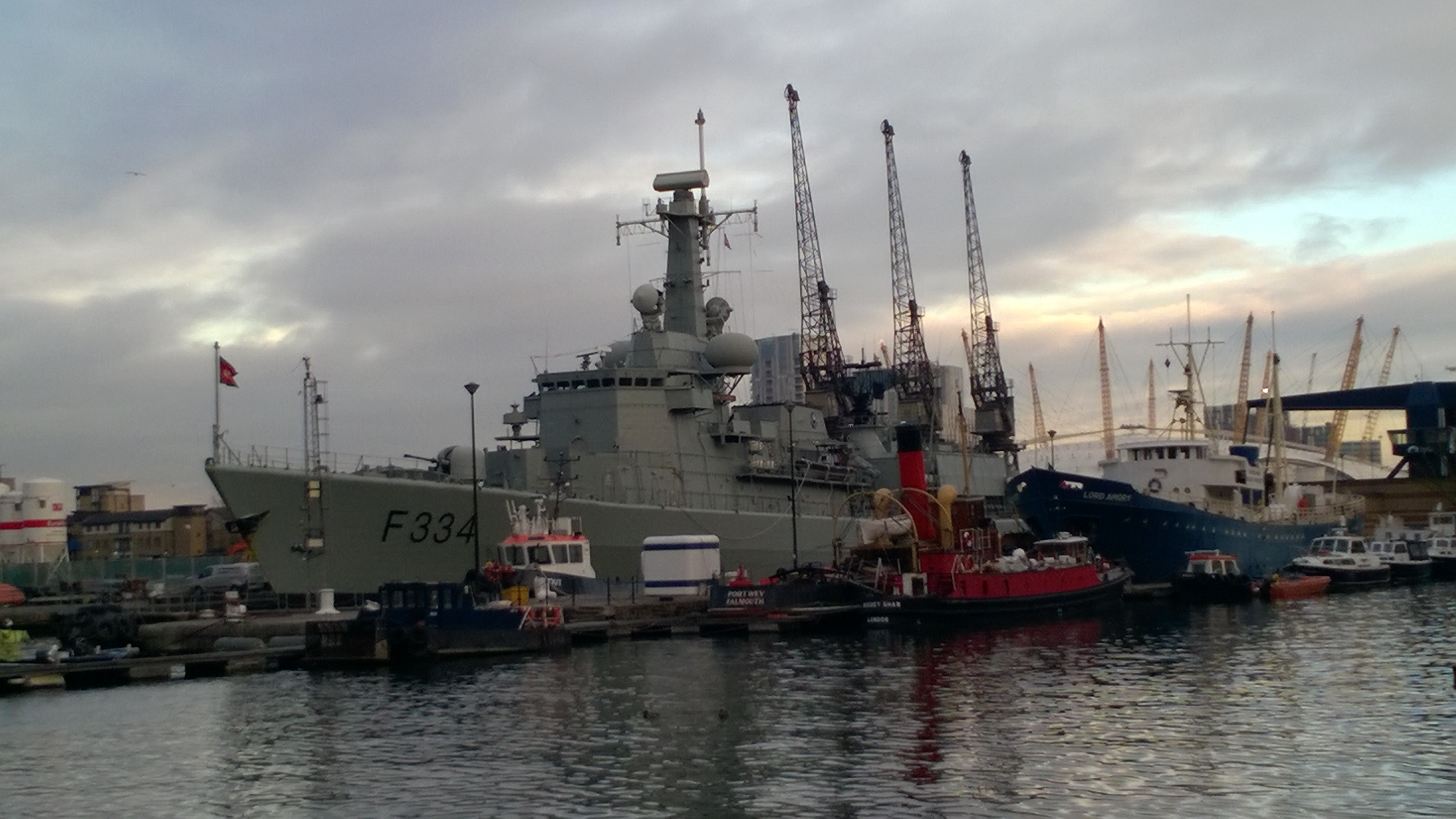 Portuguese Navy frigate D. Francisco de Almeida moored at South Quay in London